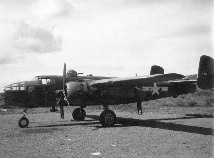 B-25 Mitchell of the 341st Bombardment Group, 14th Air Force, 1944